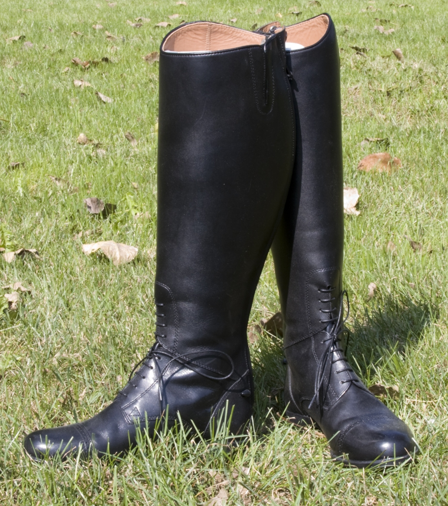 Black English riding field boots